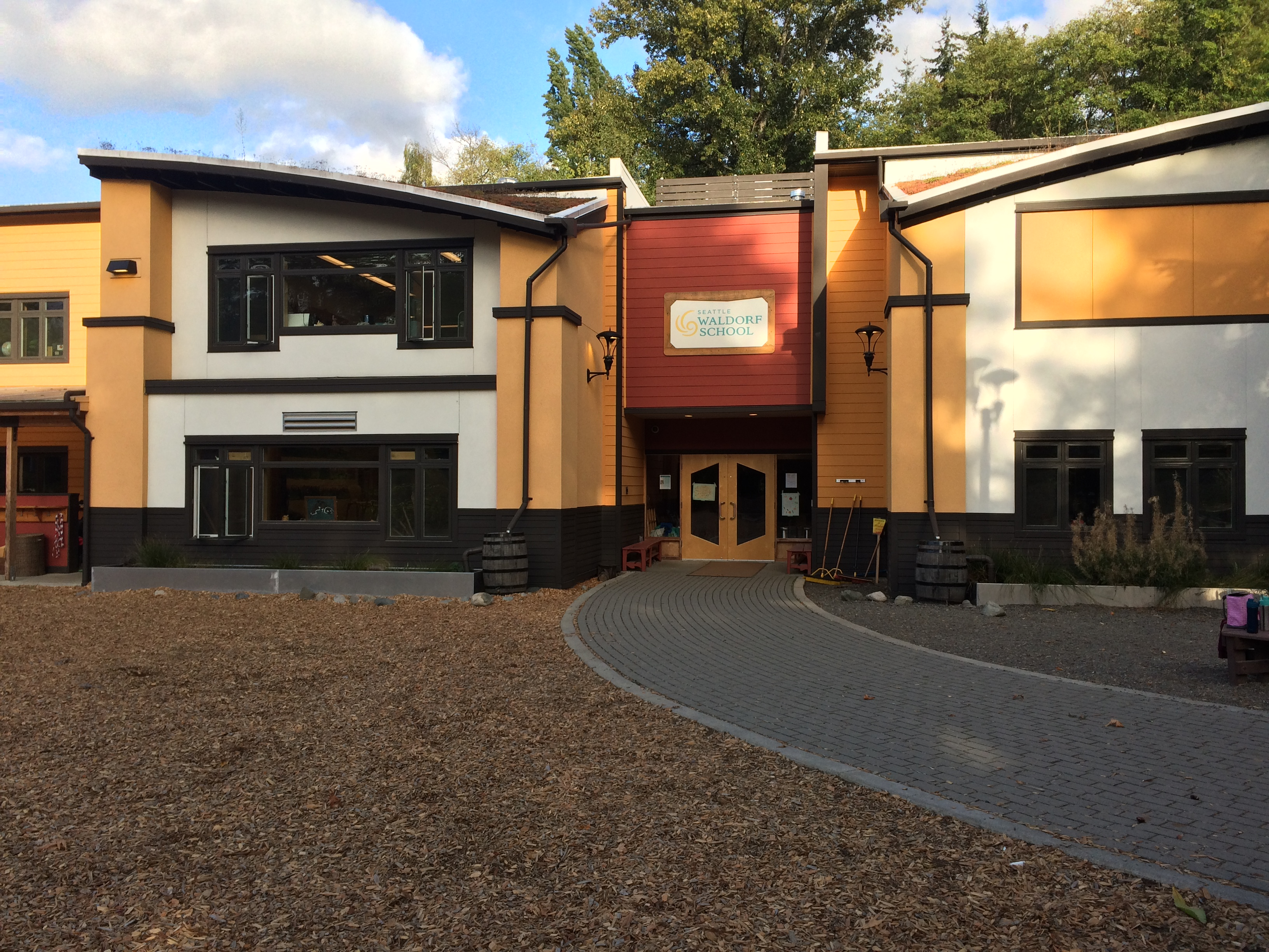 The entrance to the Seattle Waldorf School Meadowbrook branch